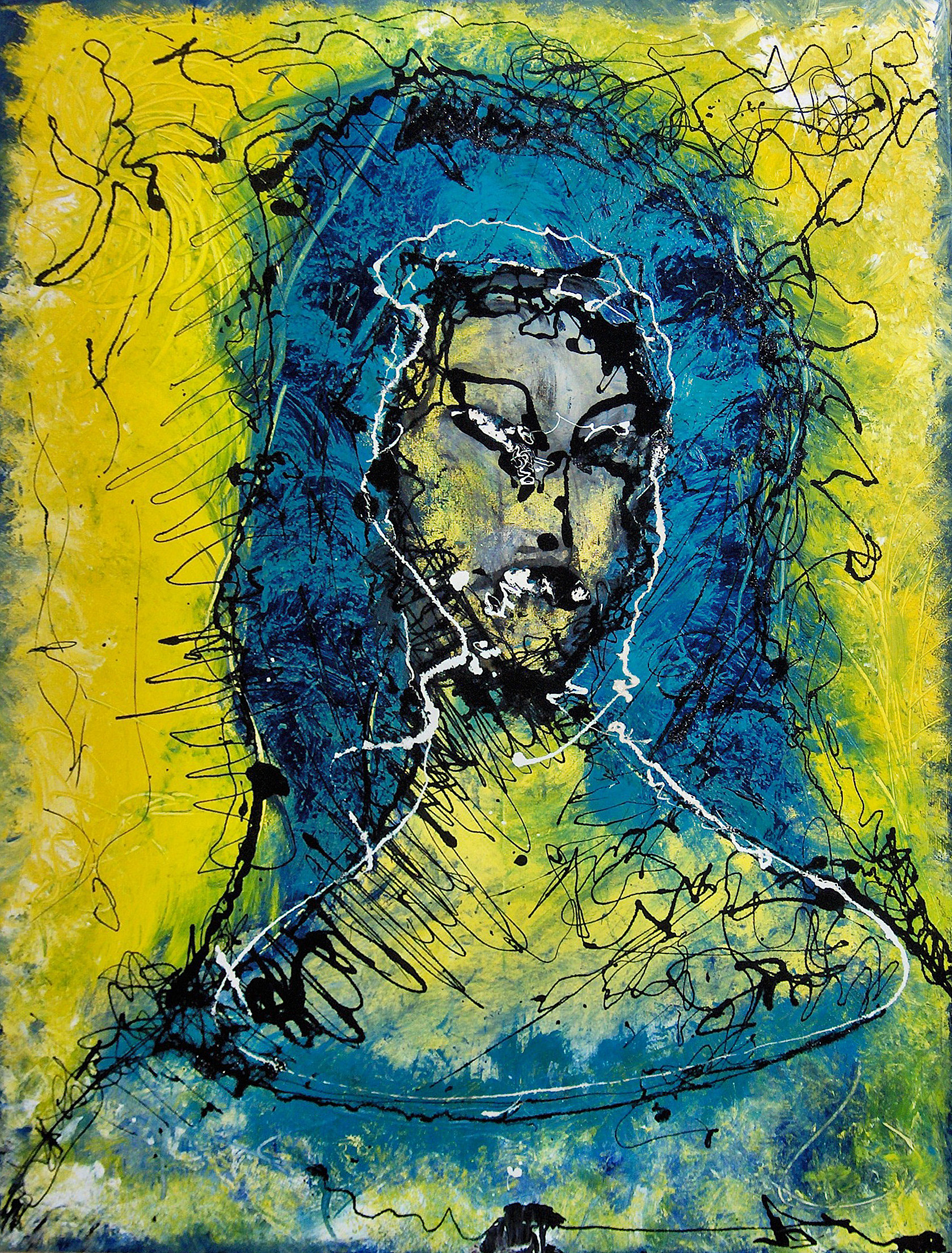 "The Witches' Mirror" (2007), painting by Natasja Delanghe